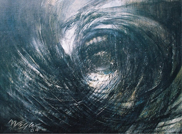 1 Painting El grito (The scream) by Mauricio García Vega